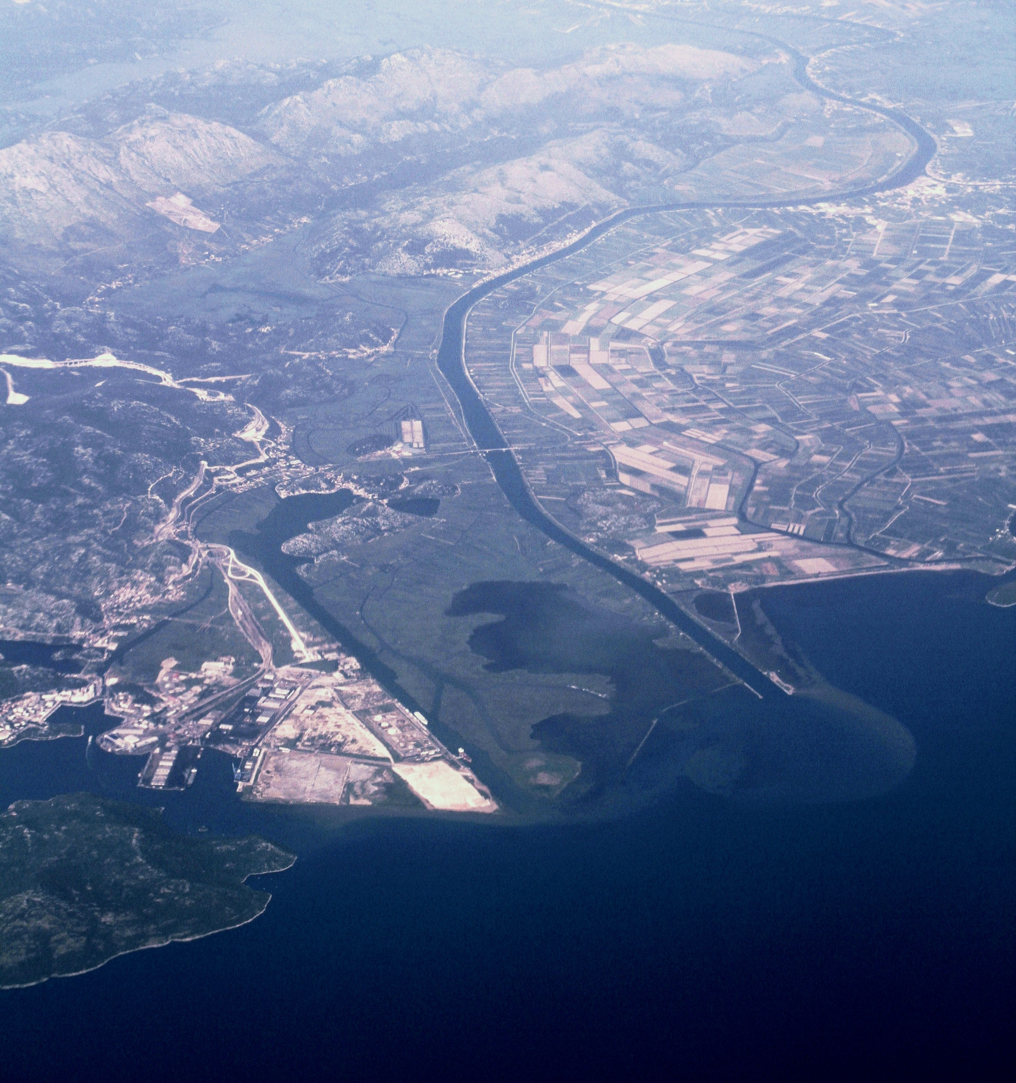 Aerial view of the delta of the river Neretva, the largest river flowing into the Adriatic from Croatia. The river has large agricultural fields, and a port. Located in Dubrovnik-Neretva province, Croatia.